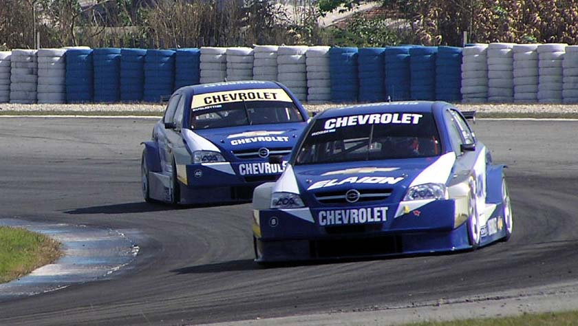 TC2000 team "Chevrolet Elaion": Chevrolet Astra#8 Matías Rossi, #40 Marcelo Bugliotti